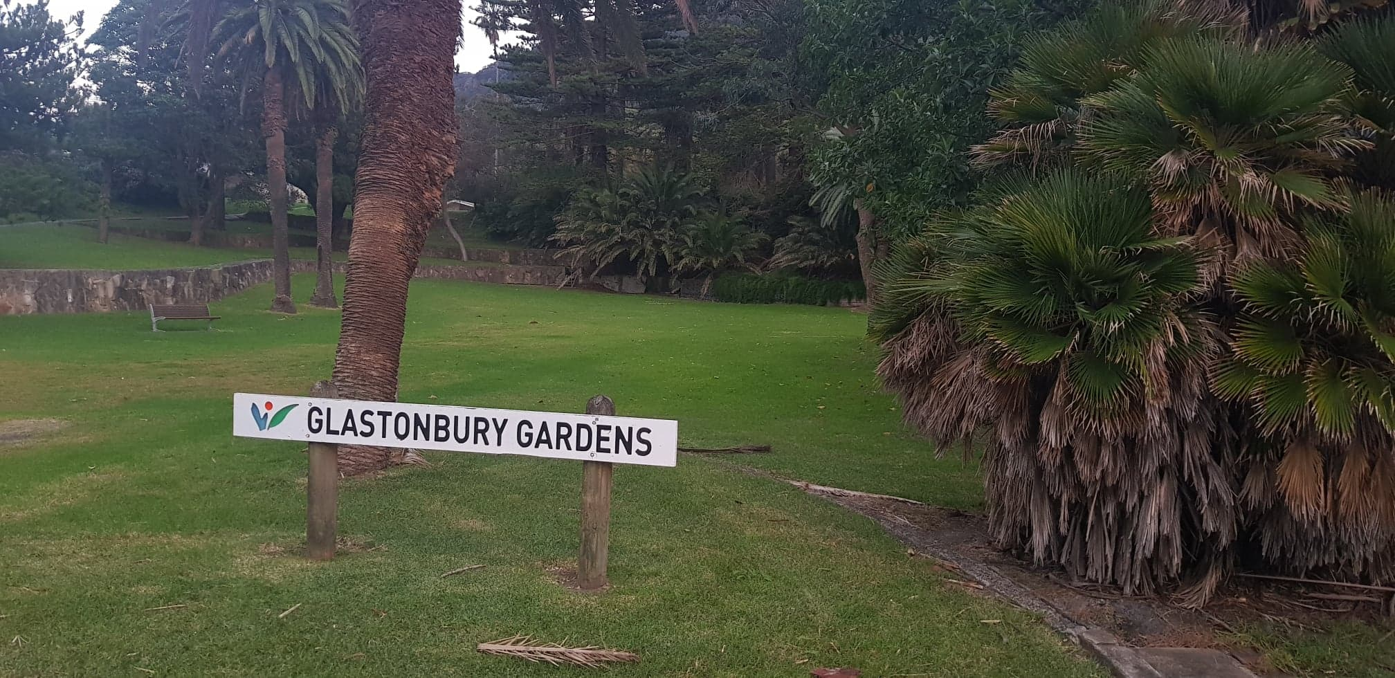 Looking at Glastonbury Gardens form Lawrence Hargrave Drive